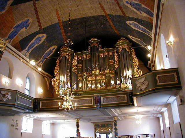 Pipe organ in Oslo Cathedral (Oslo Domkirke). Built by Lambert Daniel Kastens and finished in 1727.